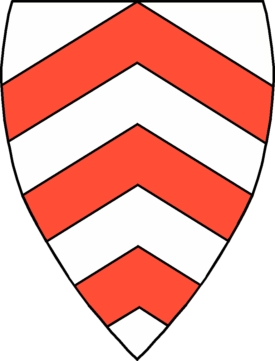 Description: Coat of arms of the German noble family of Eppstein Painter: Sir Gawain